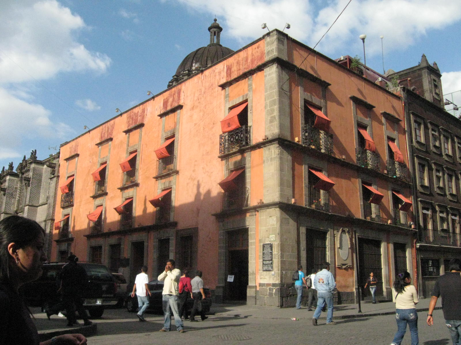 Casa de la Primera Imprenta de América (House of the First Printshop in the Americas) located just off Moneda Street in the Centro of Mexico City. It is now the Continuing Education Center of UAM